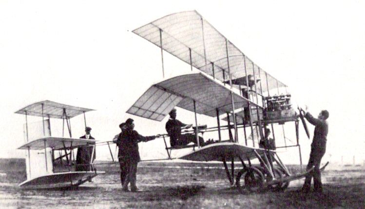 Alliot Verdon Roe in the cockpit of his Roe III Triplane during his trip to the United States